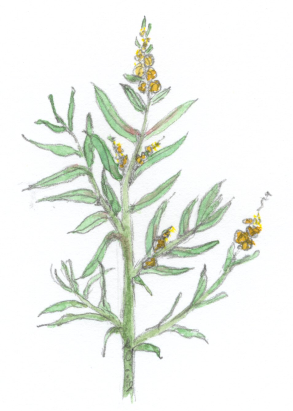 Water colour of Austral sea-blite